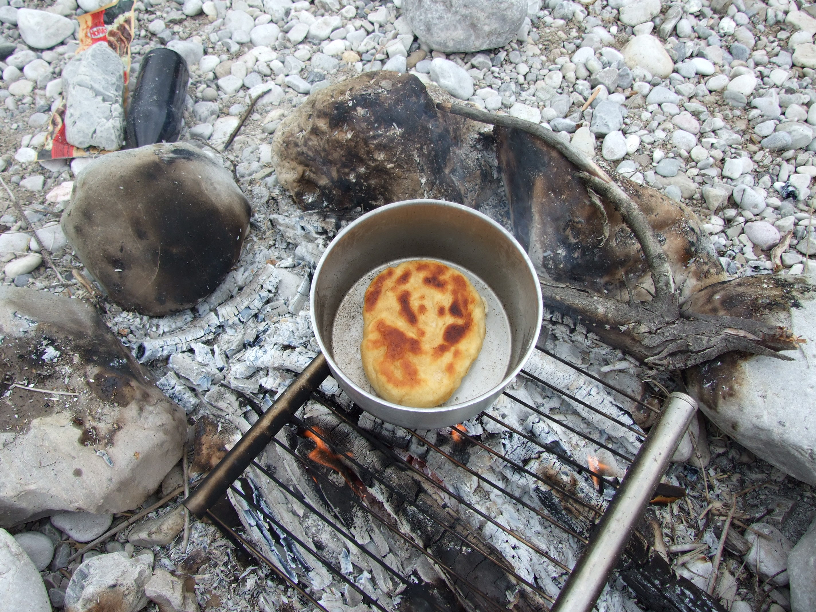 Bannock baked in a pot on a campfire. Photo taken at river Isar in Germany.